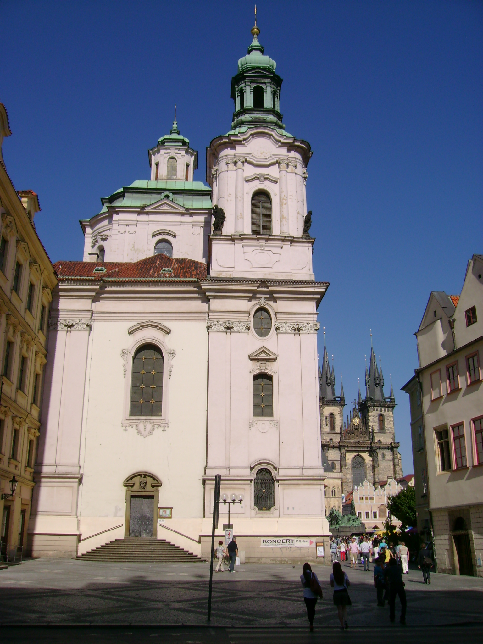 Church of St Nicholas of Old Town in Prague, Czech Republic.